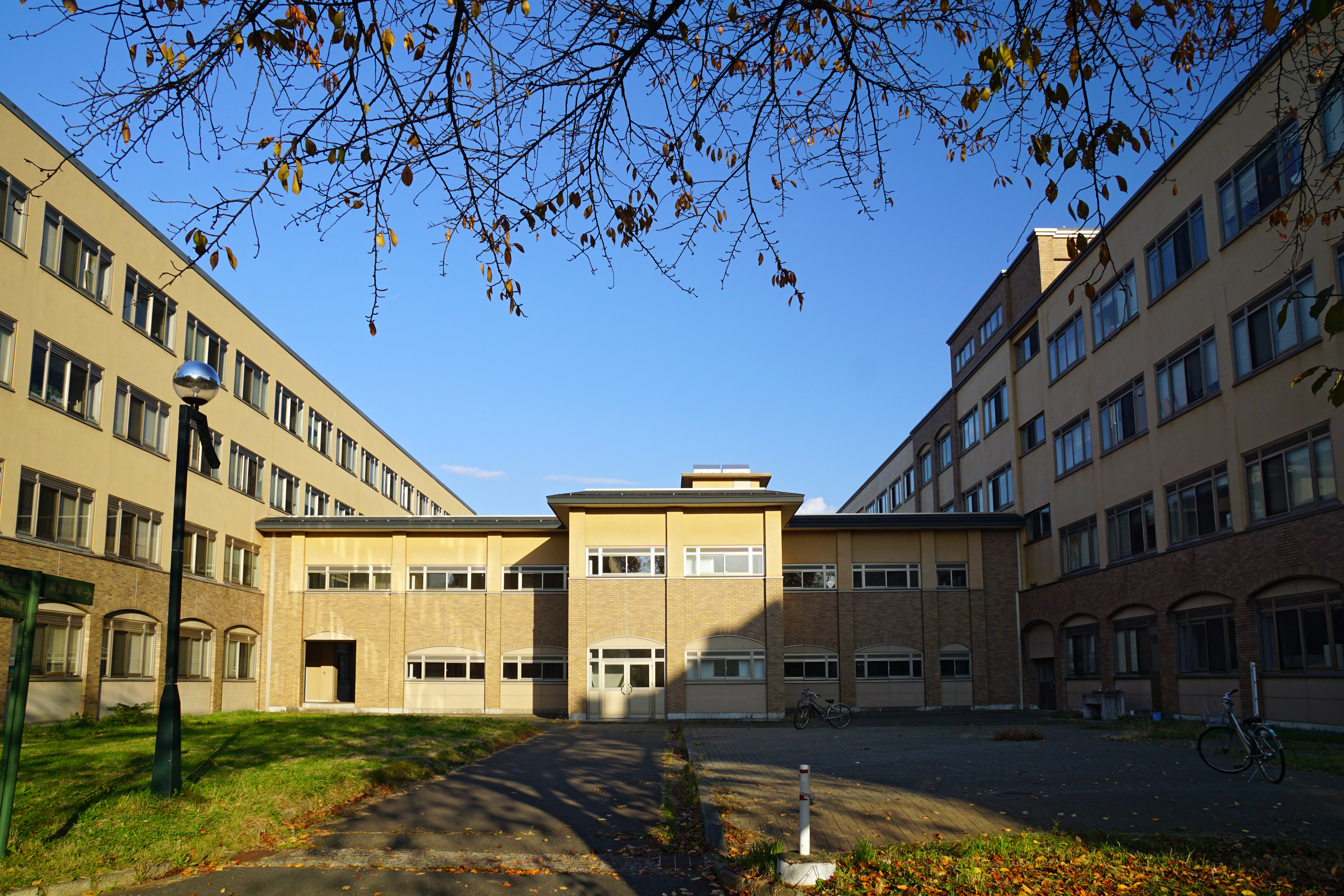 Iwate_University in Morioka, Iwate prefecture, Japan